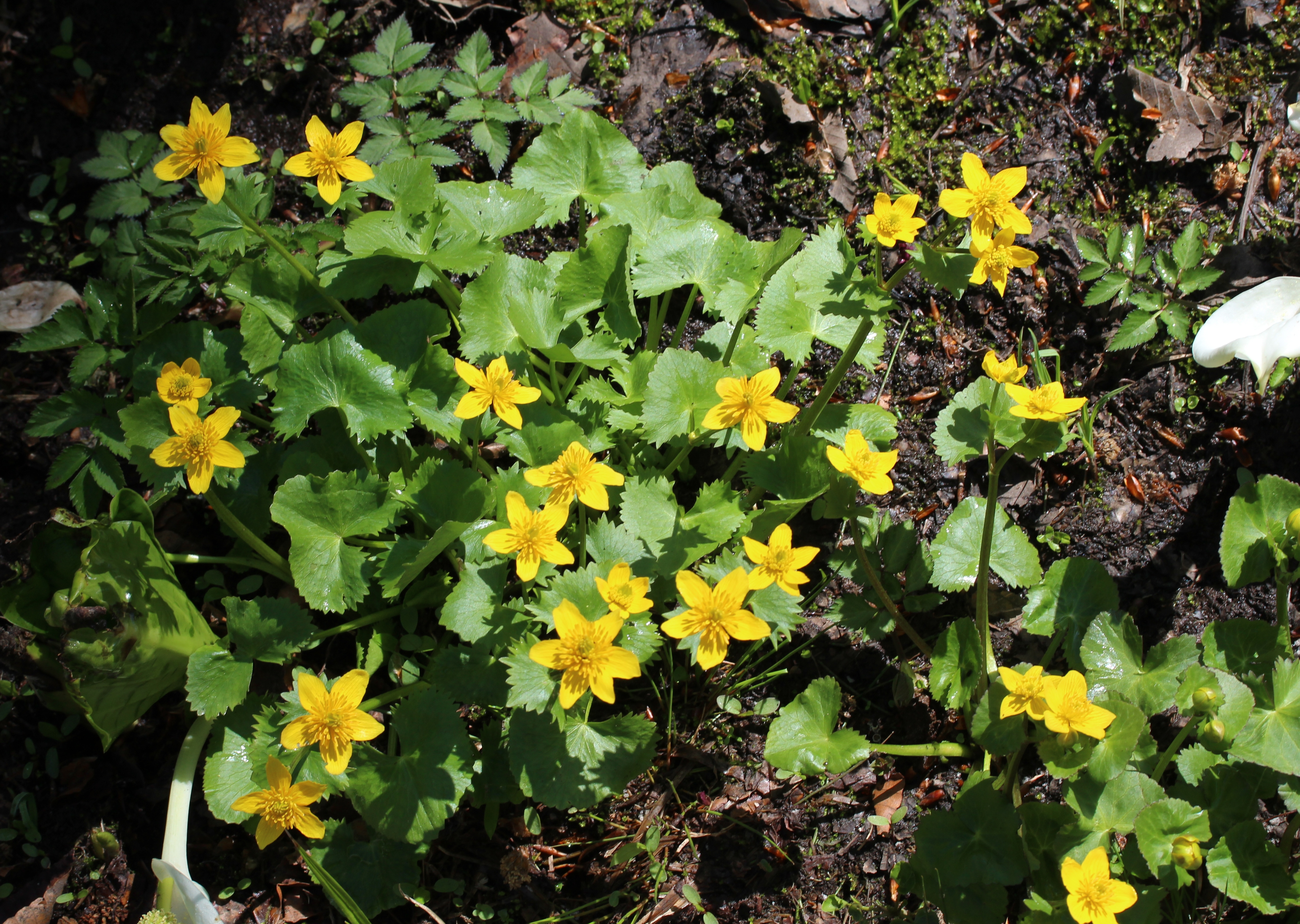 Caltha palustris var. nipponica in Mount Mominuka, Gifu prefecture, Japan.